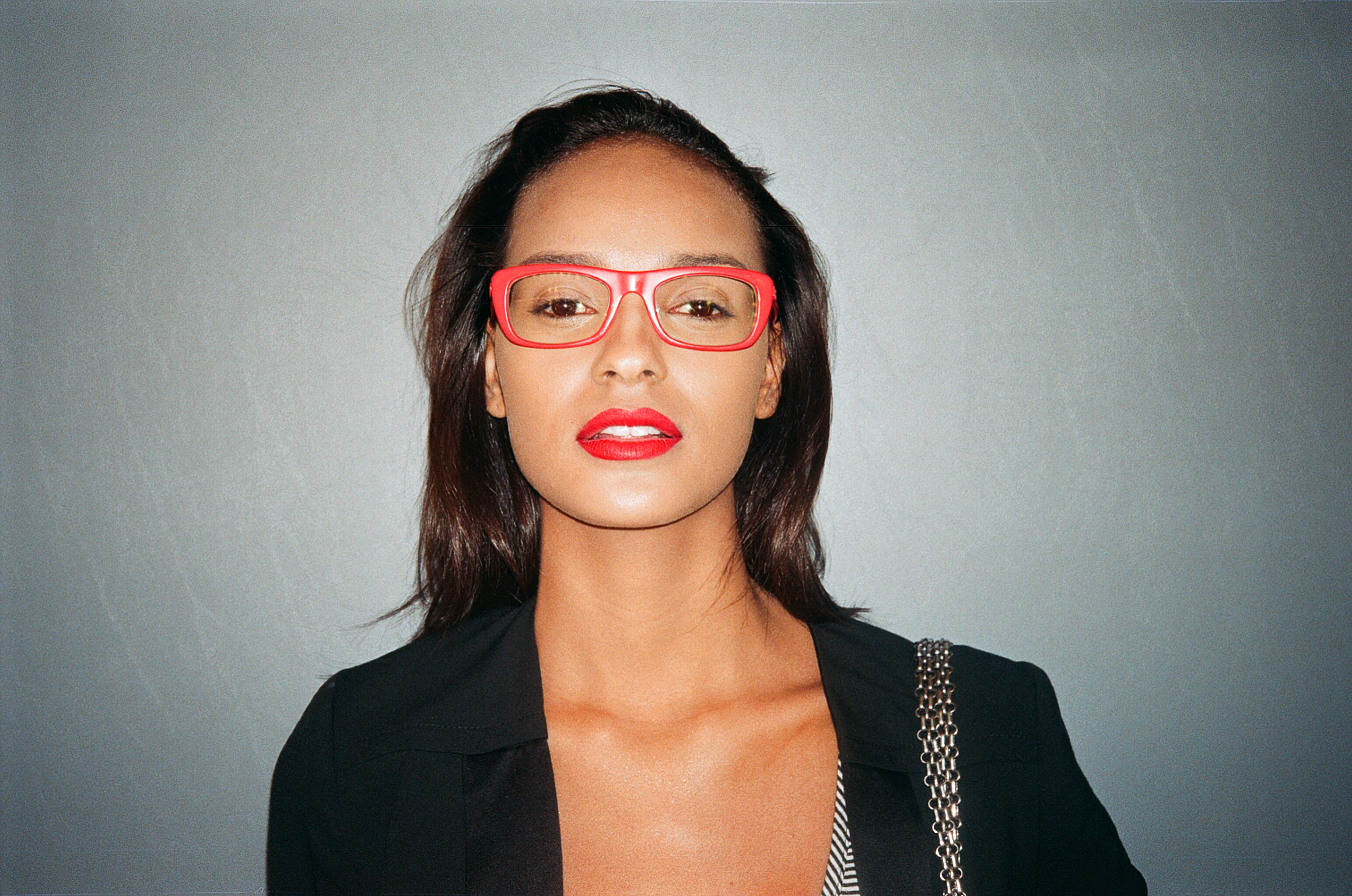 featuring Gracie Carvalho